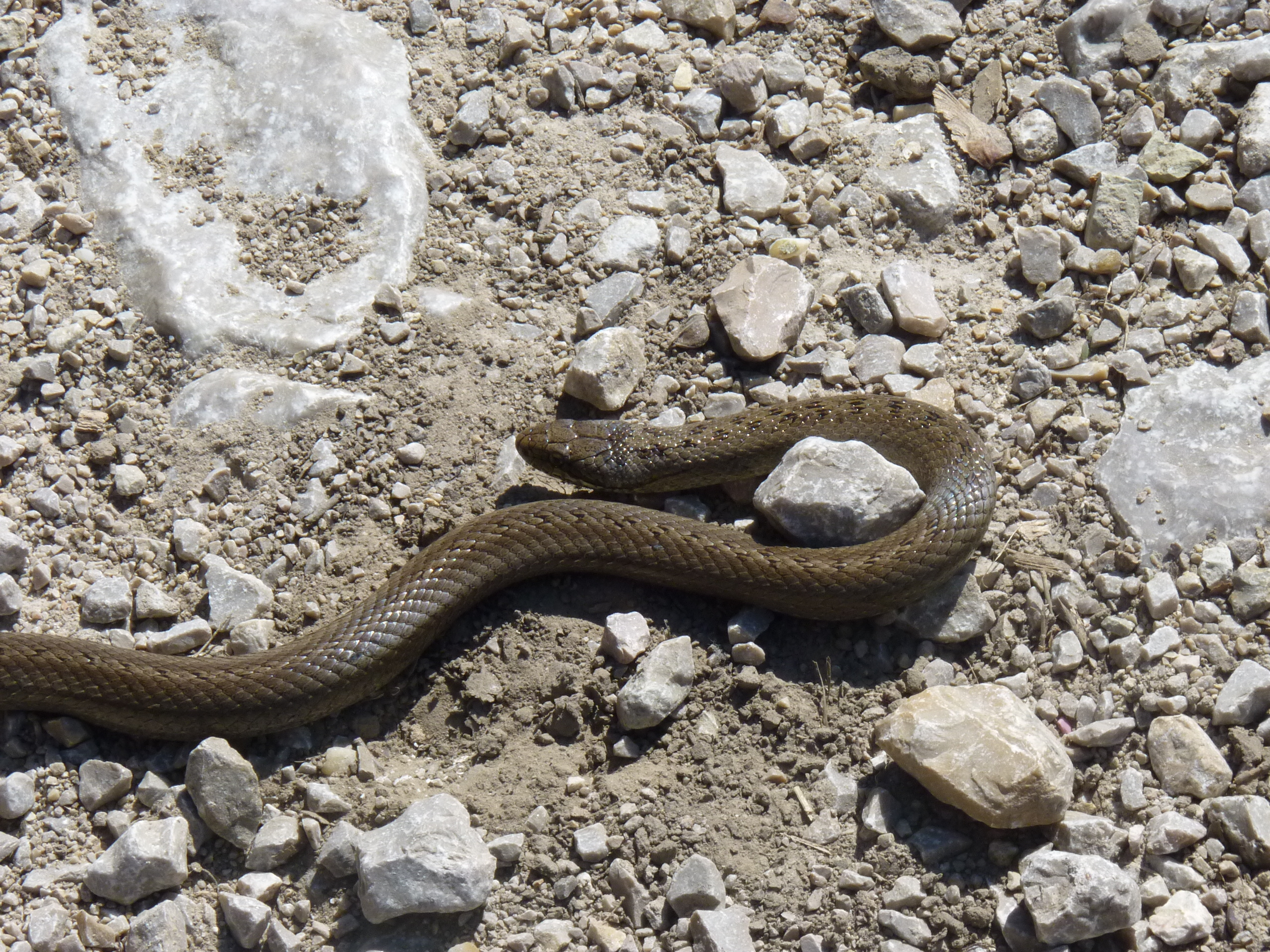 Aesculapian Snake in Gerecse